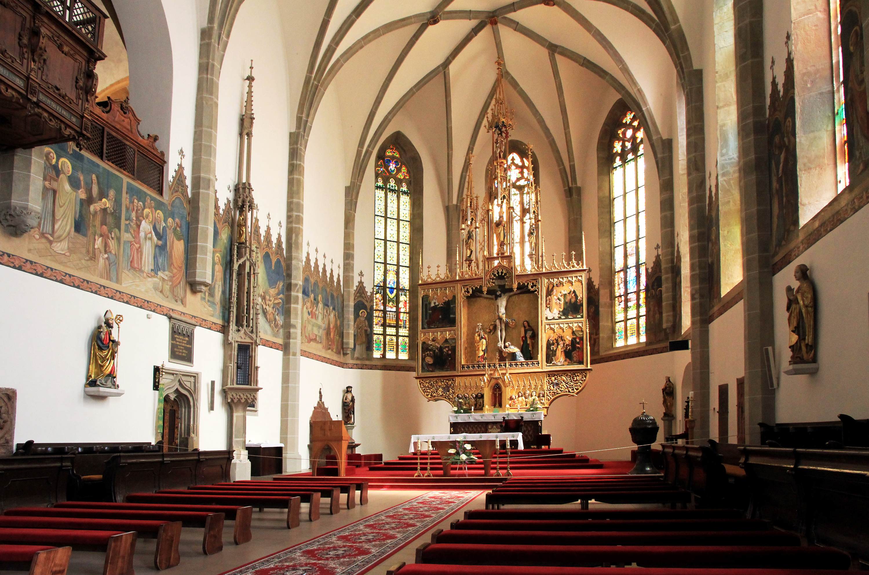 The interior of Basilica of the Exaltation of the Holy Cross in town Kežmarok, Slovakia